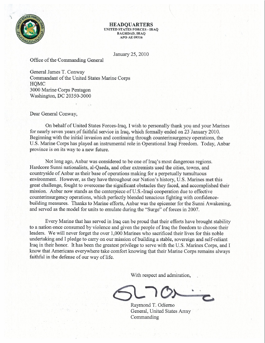 Letter from Raymond T. Odierno, commander of United States Forces - Iraq to James T. Conway, Commandant of the Marine Corps, thanking him for the service Marines made in the Iraq War.